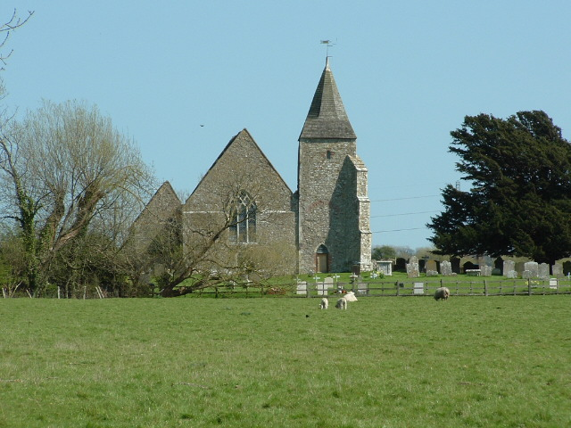 Old Romney Church, Romney Marsh, Kent.